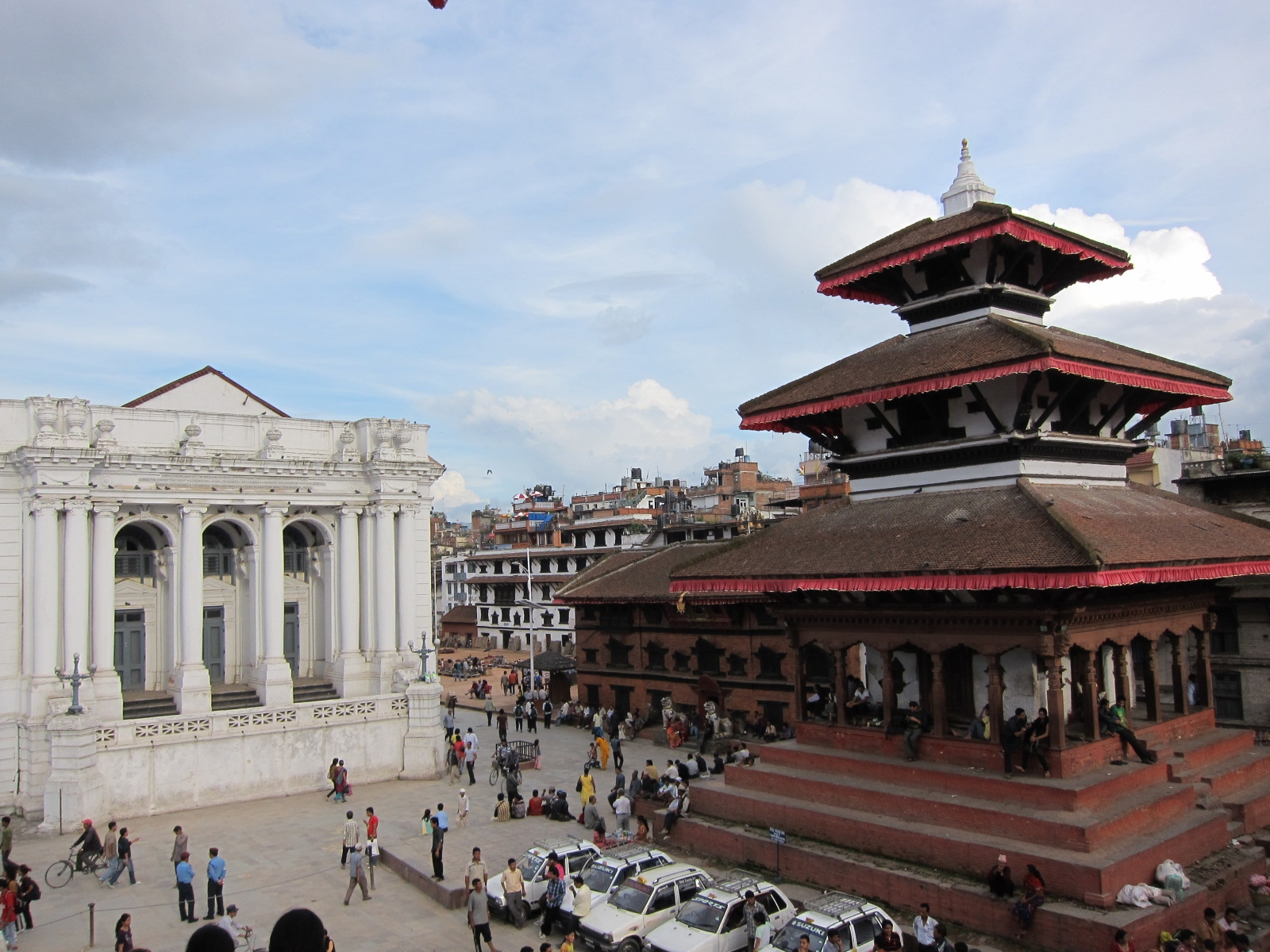 Basantapur Darbar Square Kathmandu Nepal